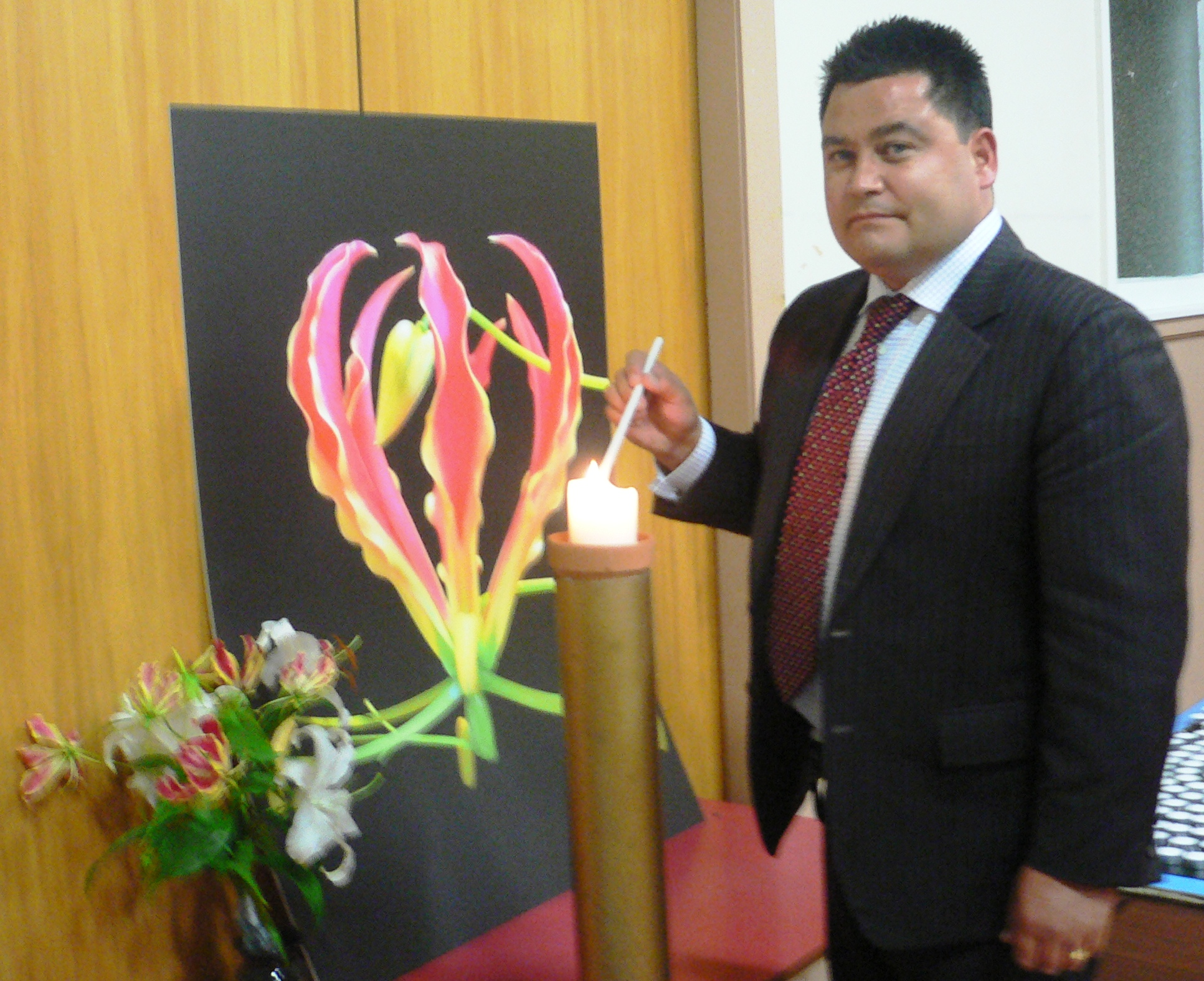 Charles Chauvel lighting a candle in rememberance of those who died a year ago at Mullivaikal.